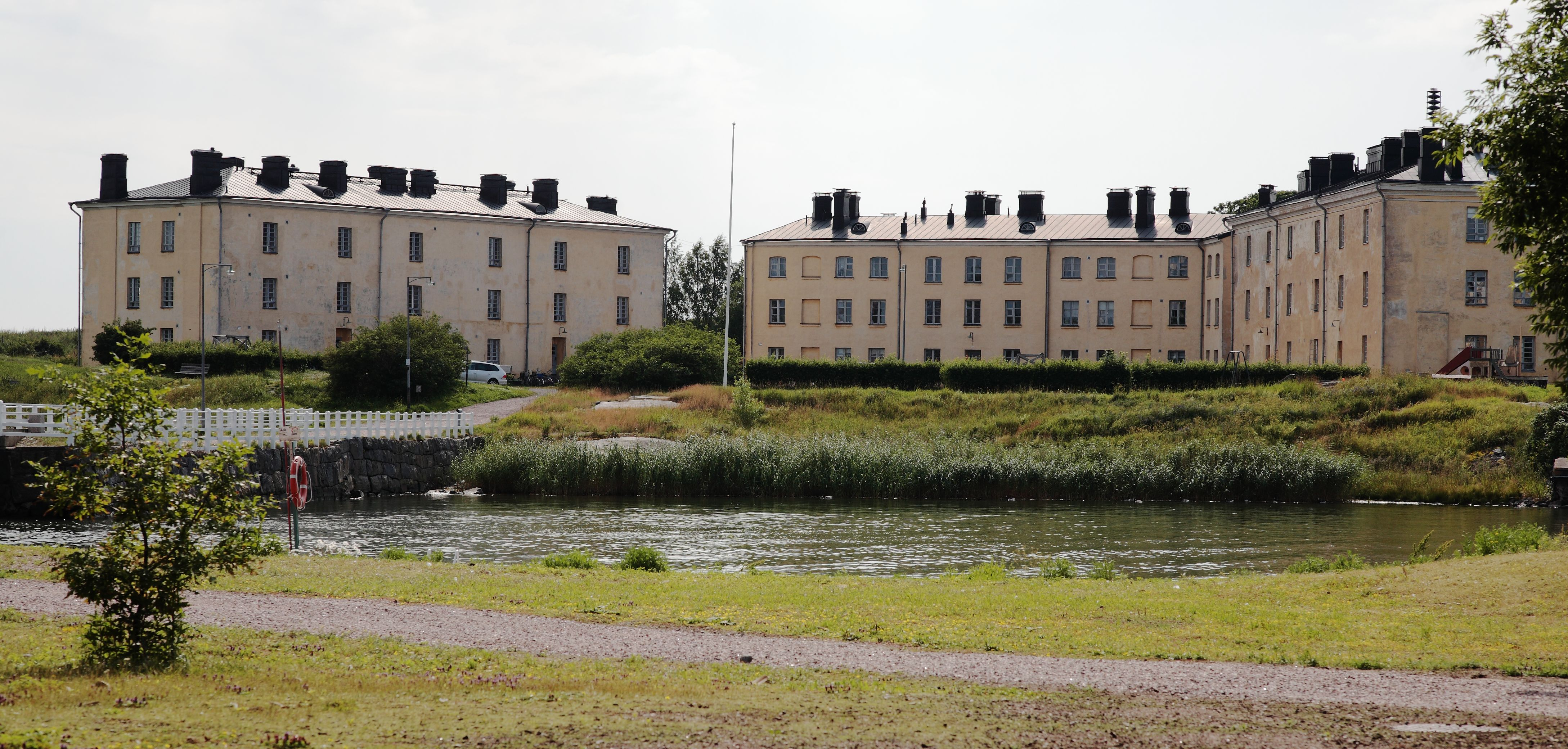 Three buildings on the Garrison Yard on Väster Svartö, Sveaborg, Suomenlinna, Helsinki